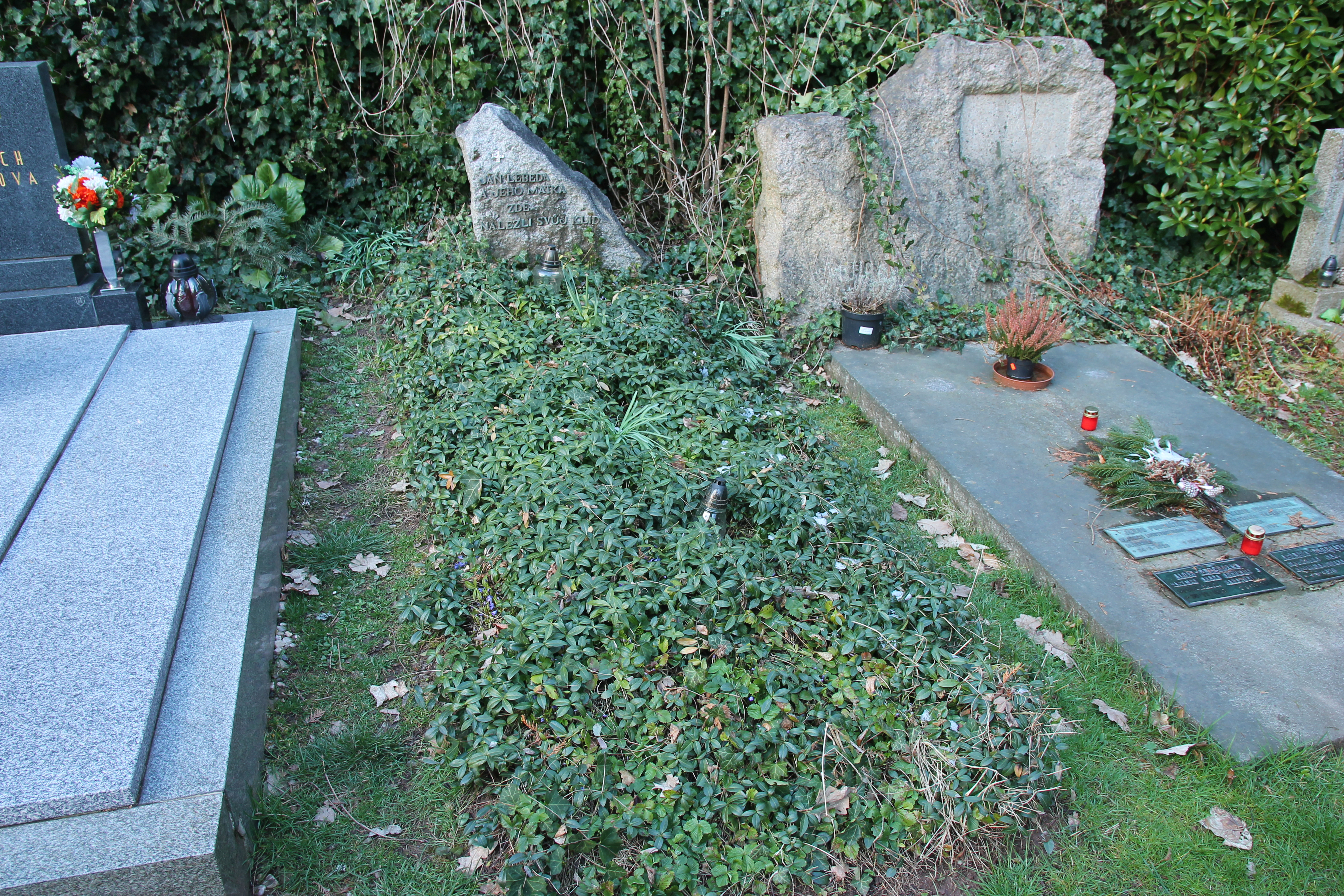 Aldašín